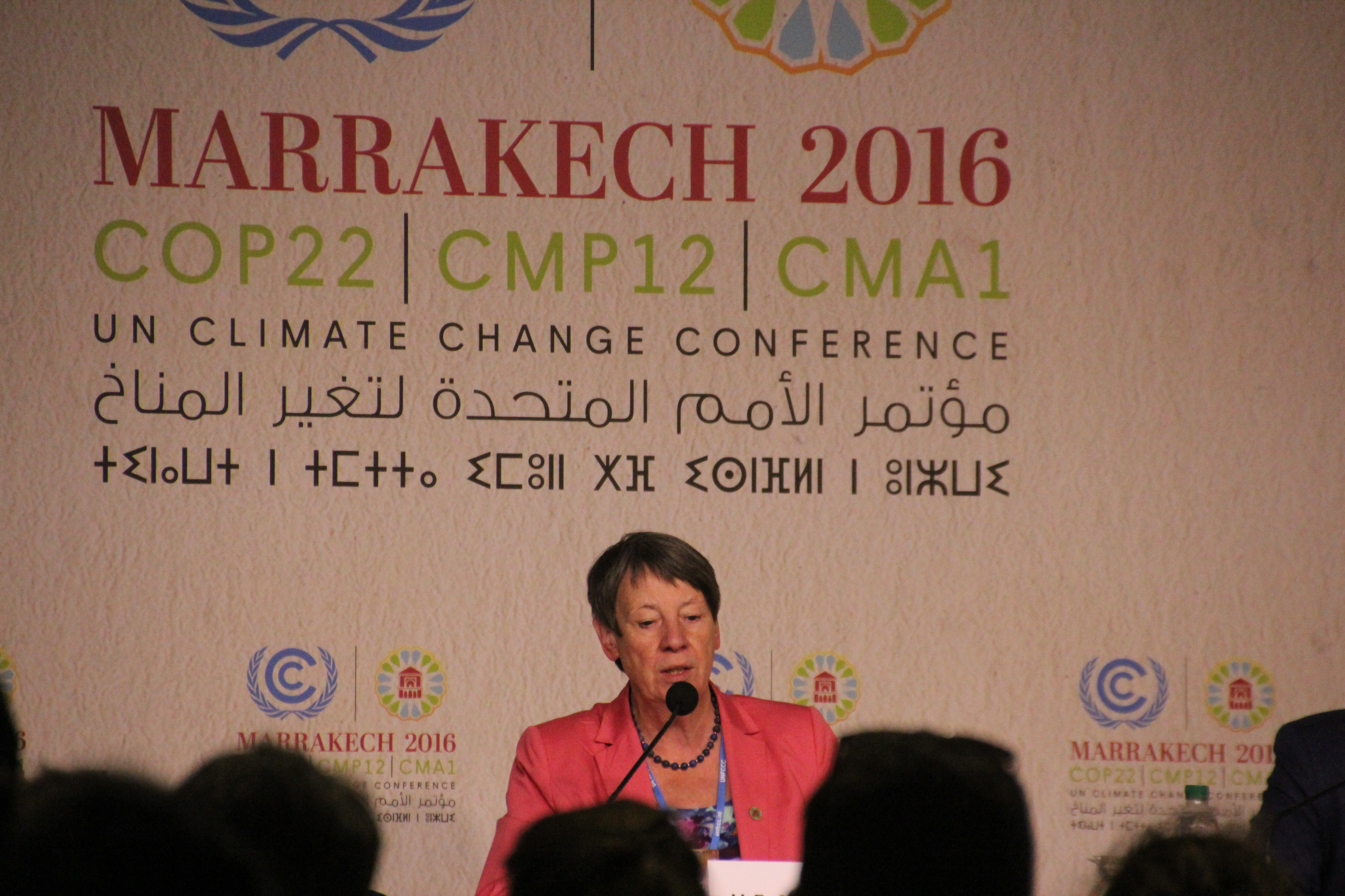 Germany:German Federal Minister for the Environment, Barbara Hendricks with Conclusions to the Paris Agreement and the World Climate Conference